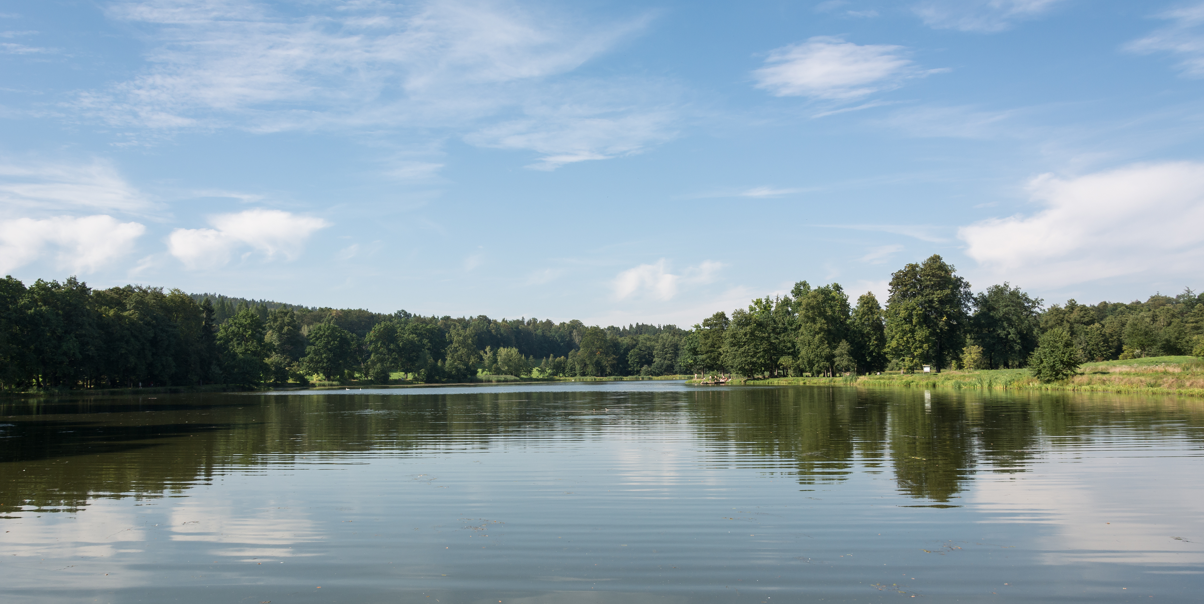 Kąpielnik pond in Bukowiec